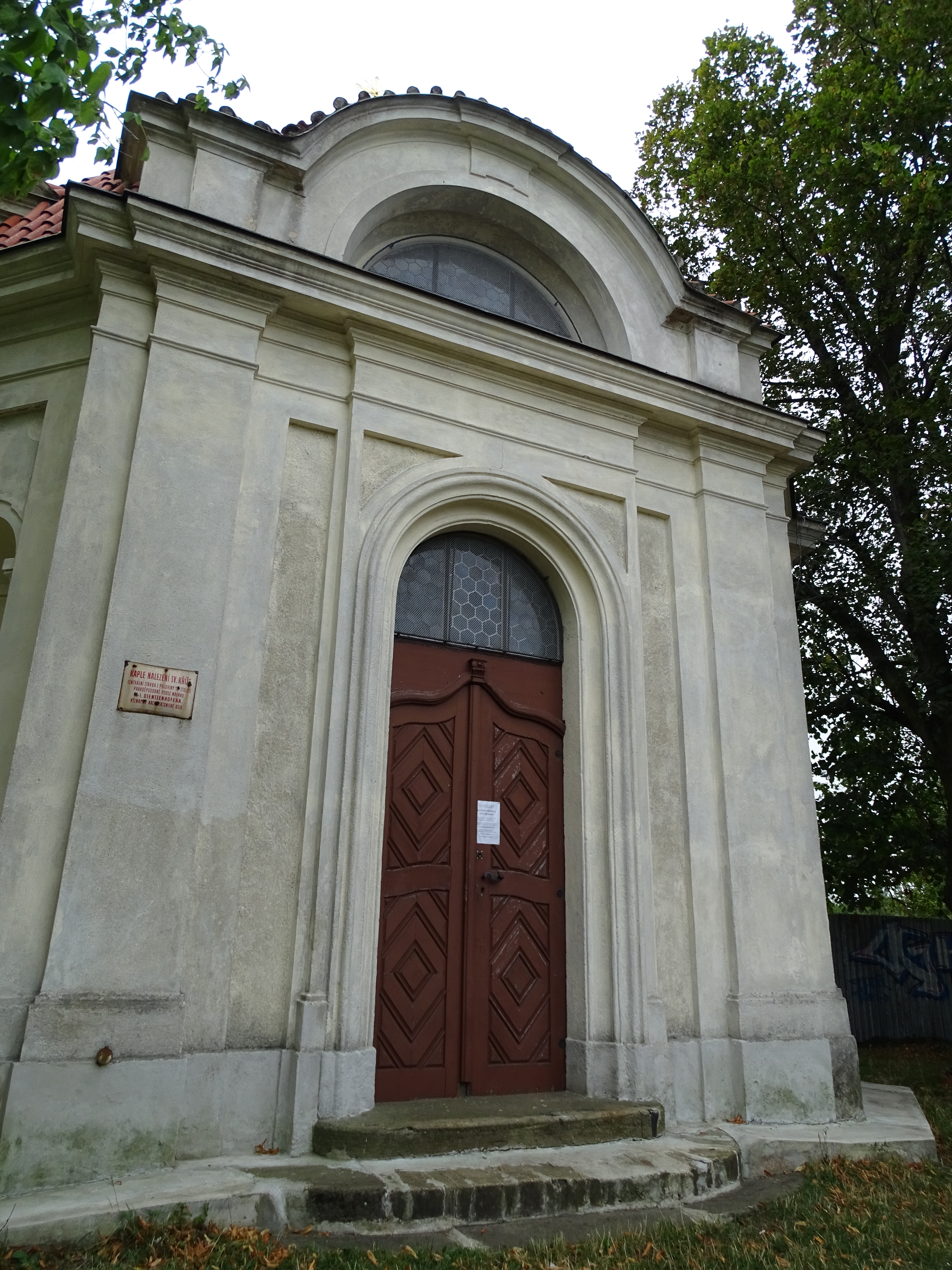 Prague-Stodůlky, Czech Republic. Háje, Chapel of the Finding of the True Cross.